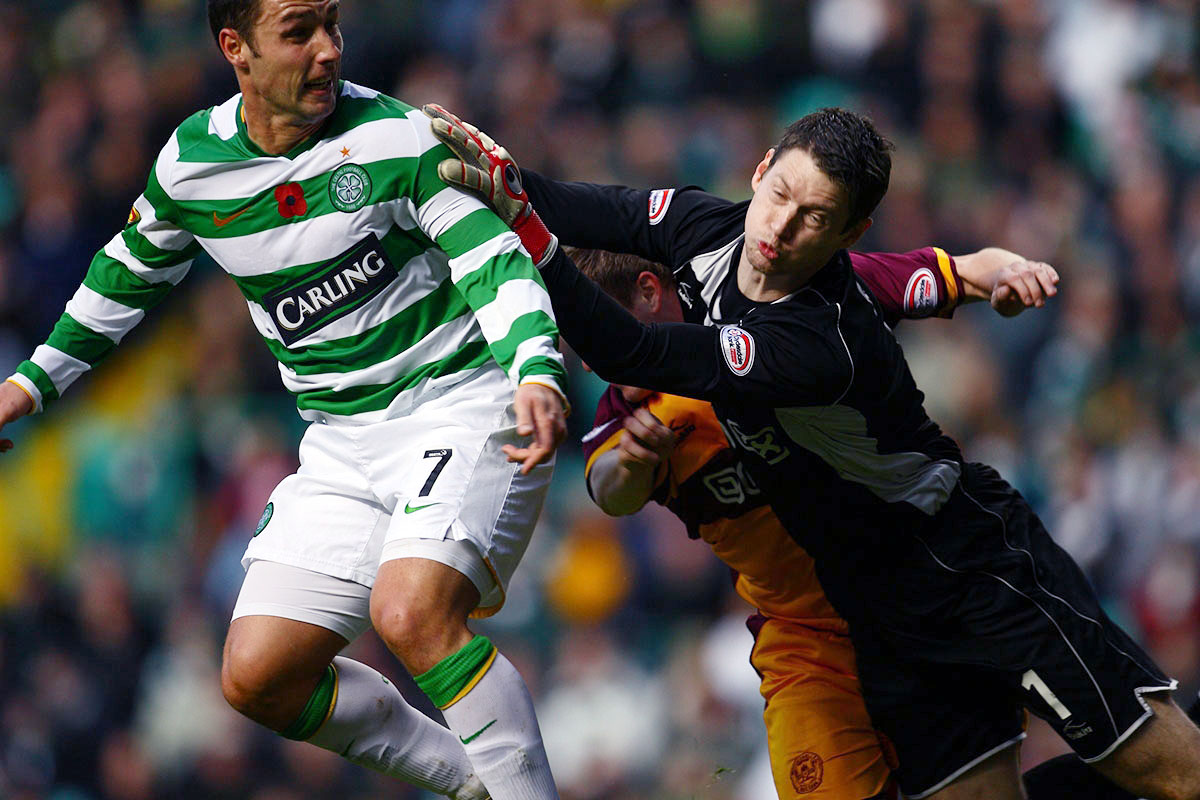 Scott McDonald of Celtic FC (left) and Graeme Smith of Motherwell FC (right). Match at Celtic Park on November 8, 2008 in Glasgow, Scotland. (Photo by Tsutomu Takasu)